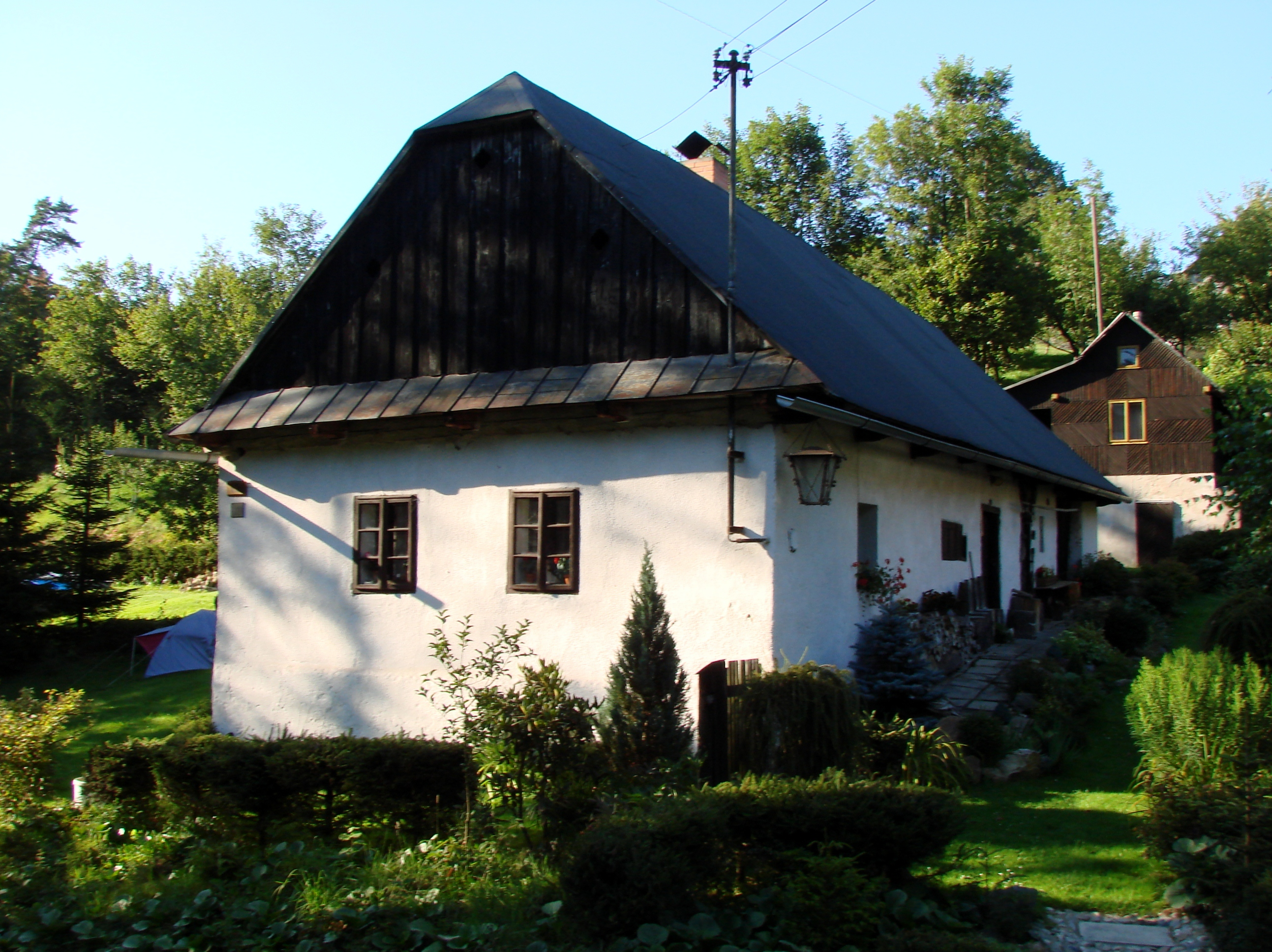 A traditional rural cottage in the village of Hudeč, Podmoklany village, the Vysočina region, the Czech Republic.